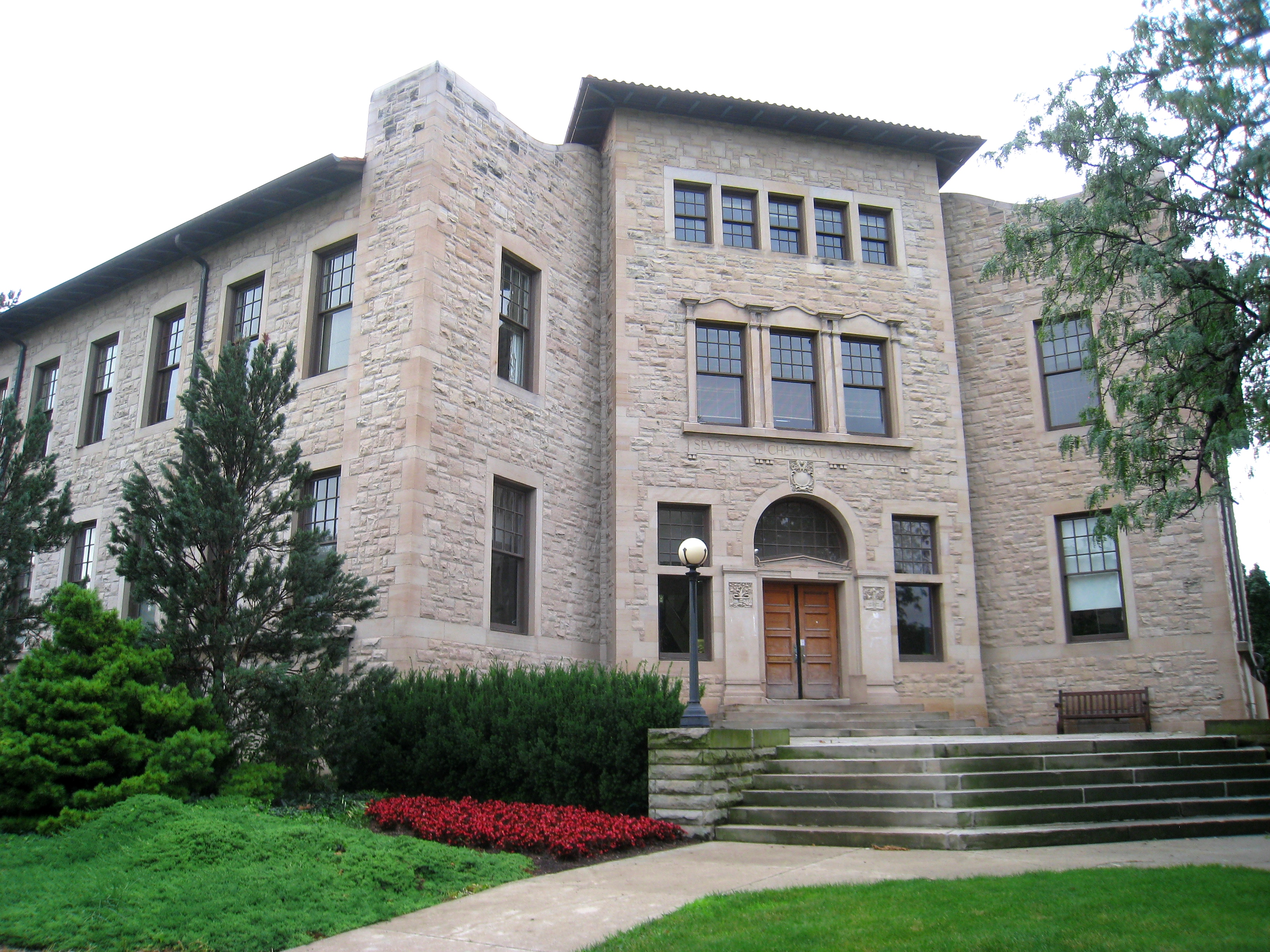 Severance Hall, Oberlin College, Oberlin, Ohio, USA. Architect Howard Van Doren Shaw, Chicago, dedicated September 26, 1901. I took this photograph.